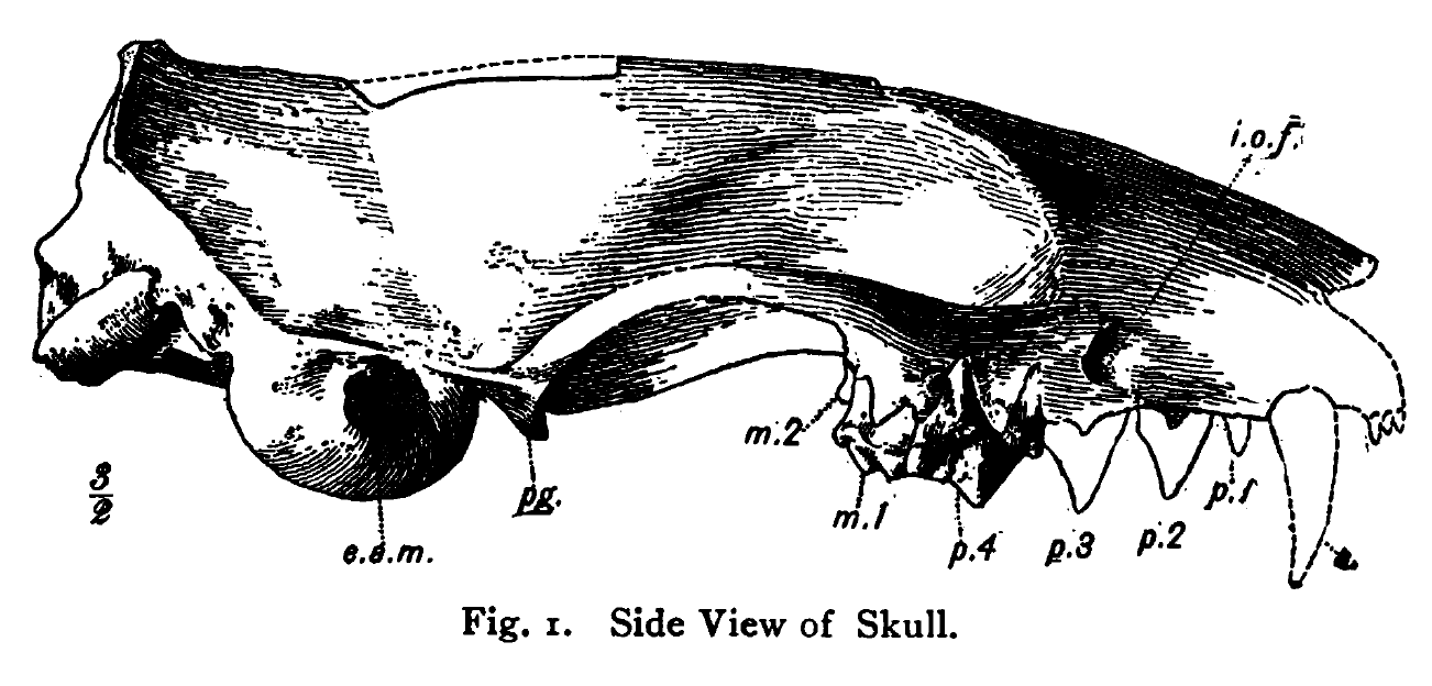 Lateral view of Bunaelurus (=Palaeogale) skull. Palaeogale is now considered Carnivora incertae sedis.